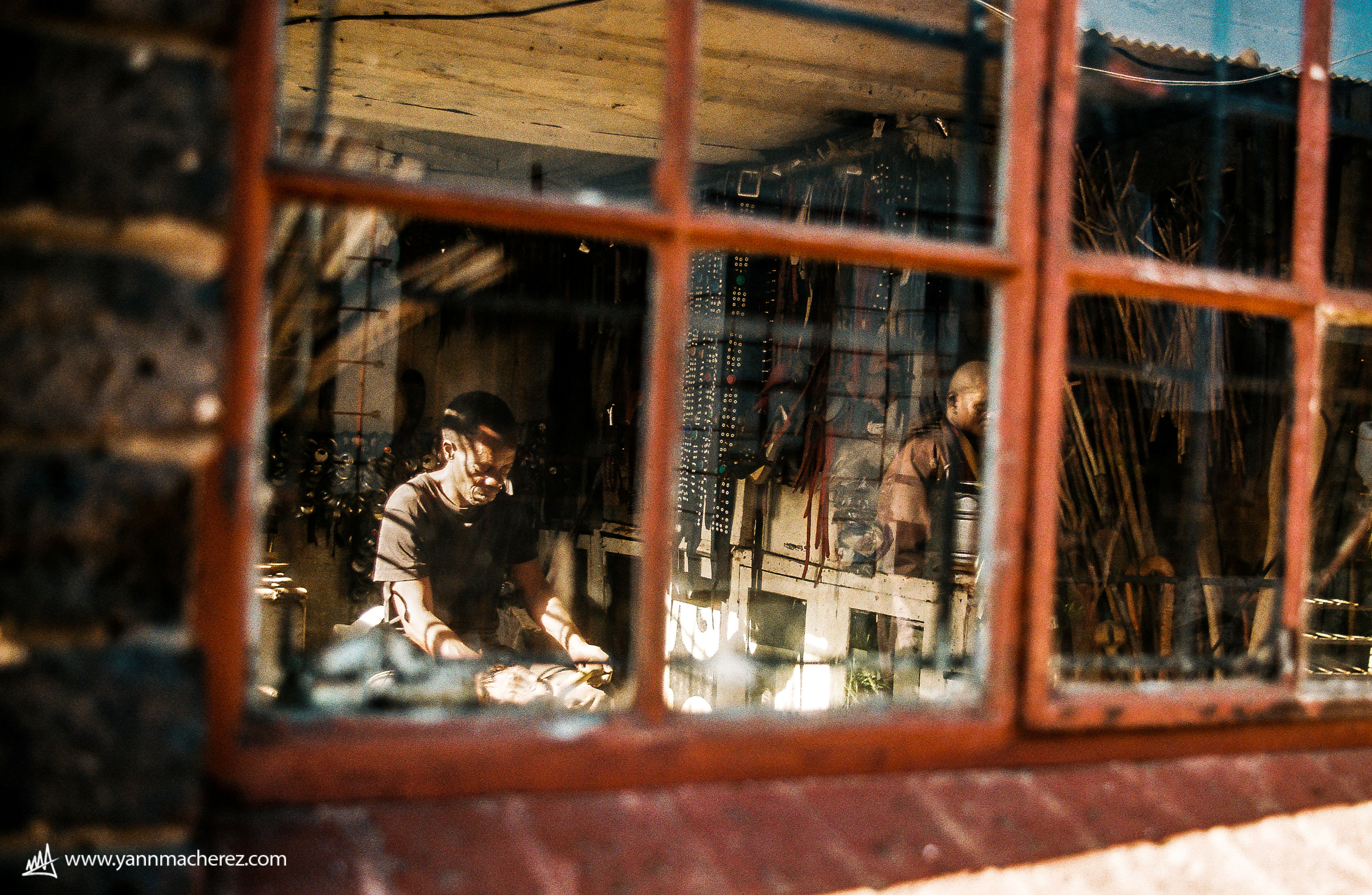 The history of kwaMai Mai Market is unknown but everyone agrees it is Johannesburg’s oldest market dedicated to traditional medicine. For the traders behind its old, red-brick walls it is more than a market; it is home, a place of love, life and spirituality. . I spent an hour exploring this little village, squeezed just below the highway. An amazing immersion in local rituals and food habits. This is an image of "African people at work" from South Africa